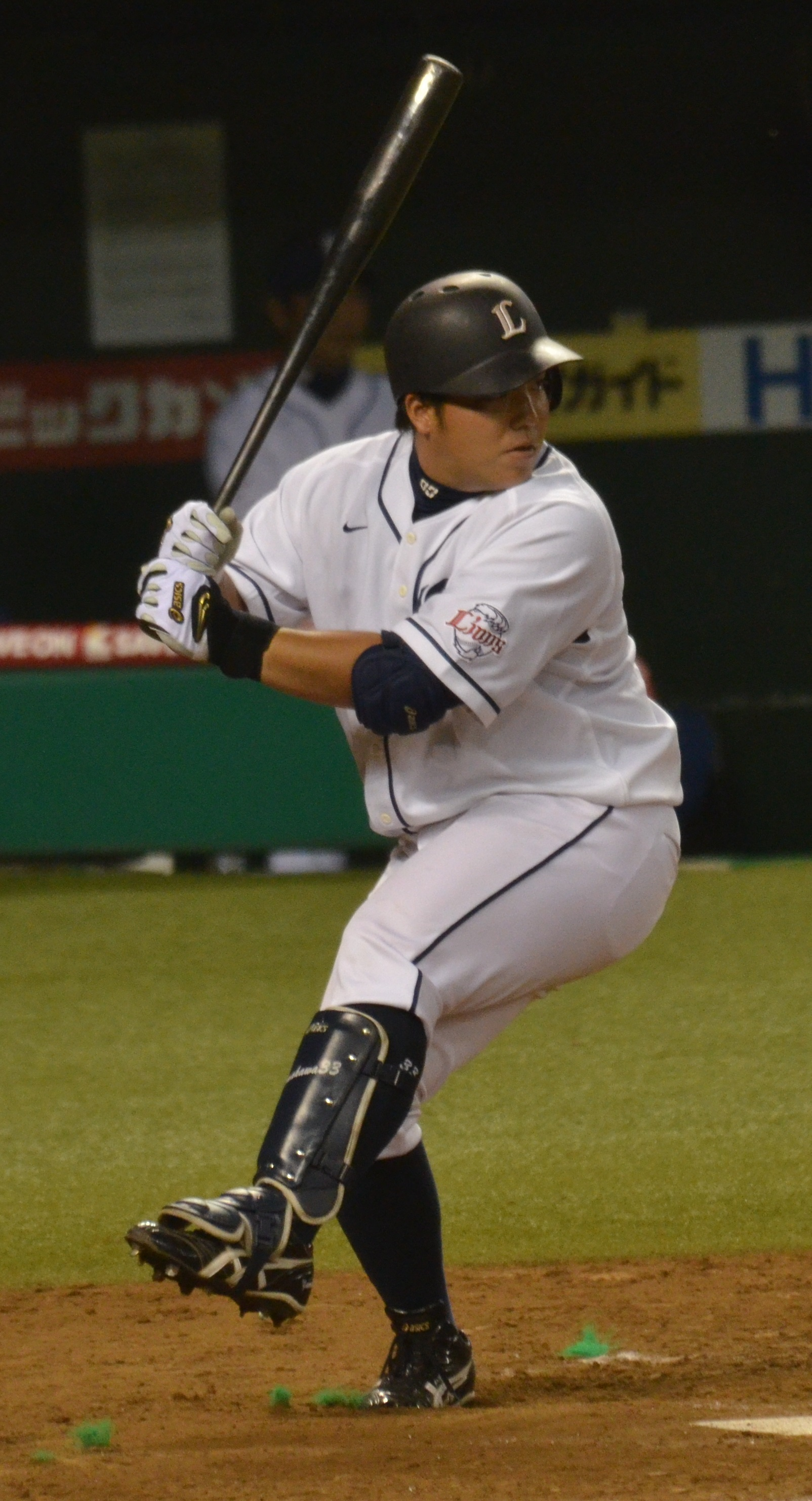 Hotaka Yamakawa, an infielder of the Saitama Seibu Lions, at the Seibu Dome.